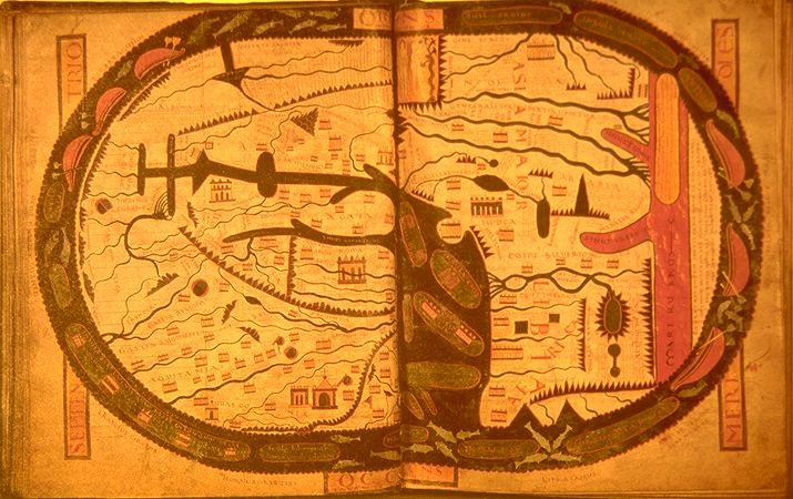 St. Sever world map after Beatus, 1030 A.D. (oriented with East at the top) 37 x 57 cm